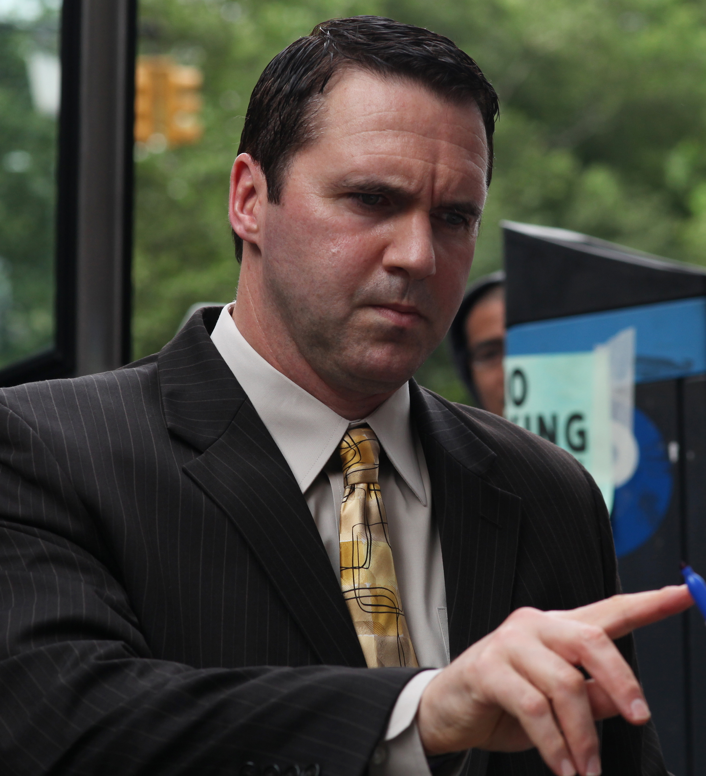 Bill Ranford in June 2014.